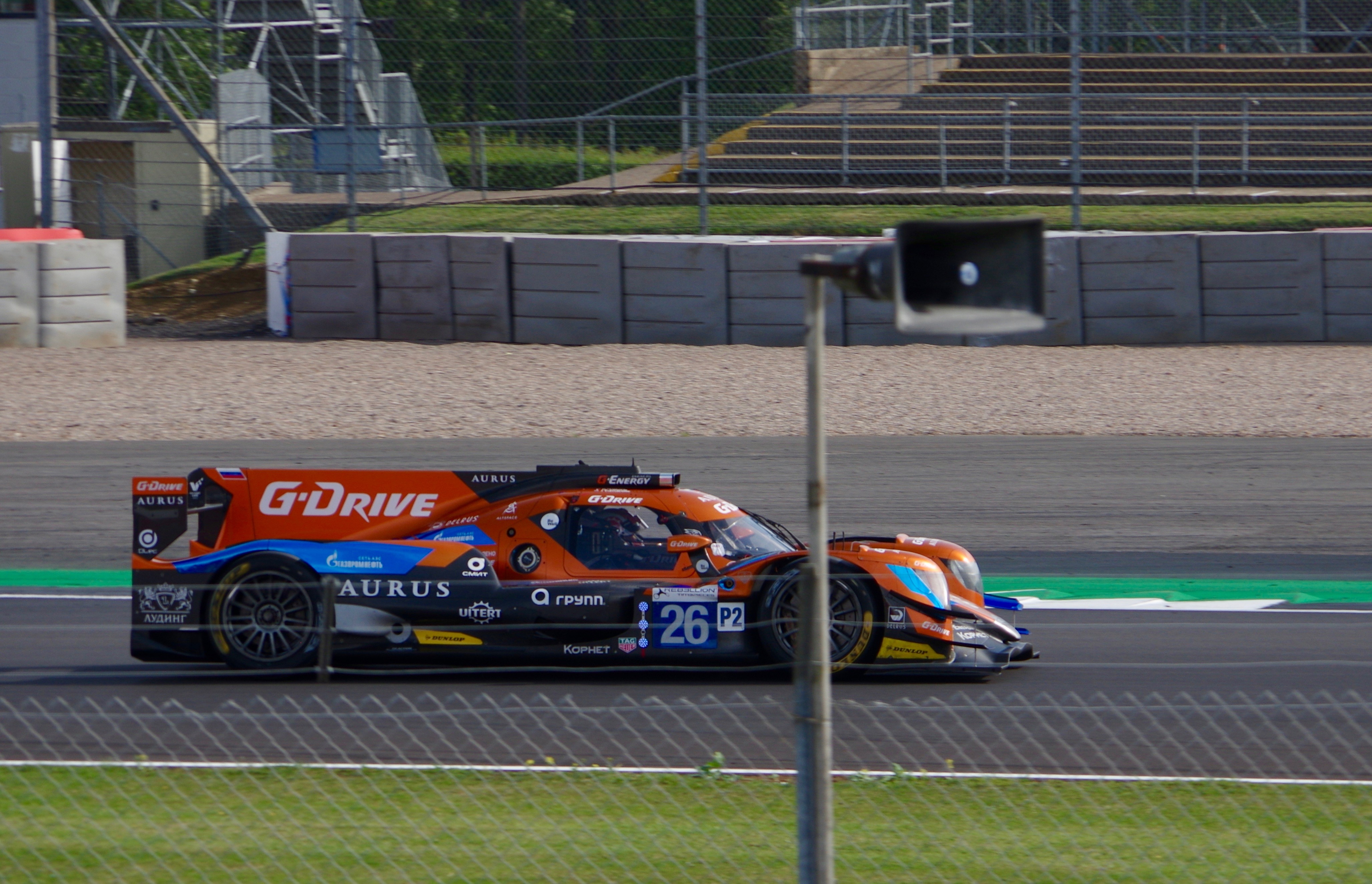 G-Drive Racing's Aurus 01 Gibson Driven by Roman Rusinov, Jean Eric Vergne and Job Van Uitert at the 2019 4 HOurs of Silverstone